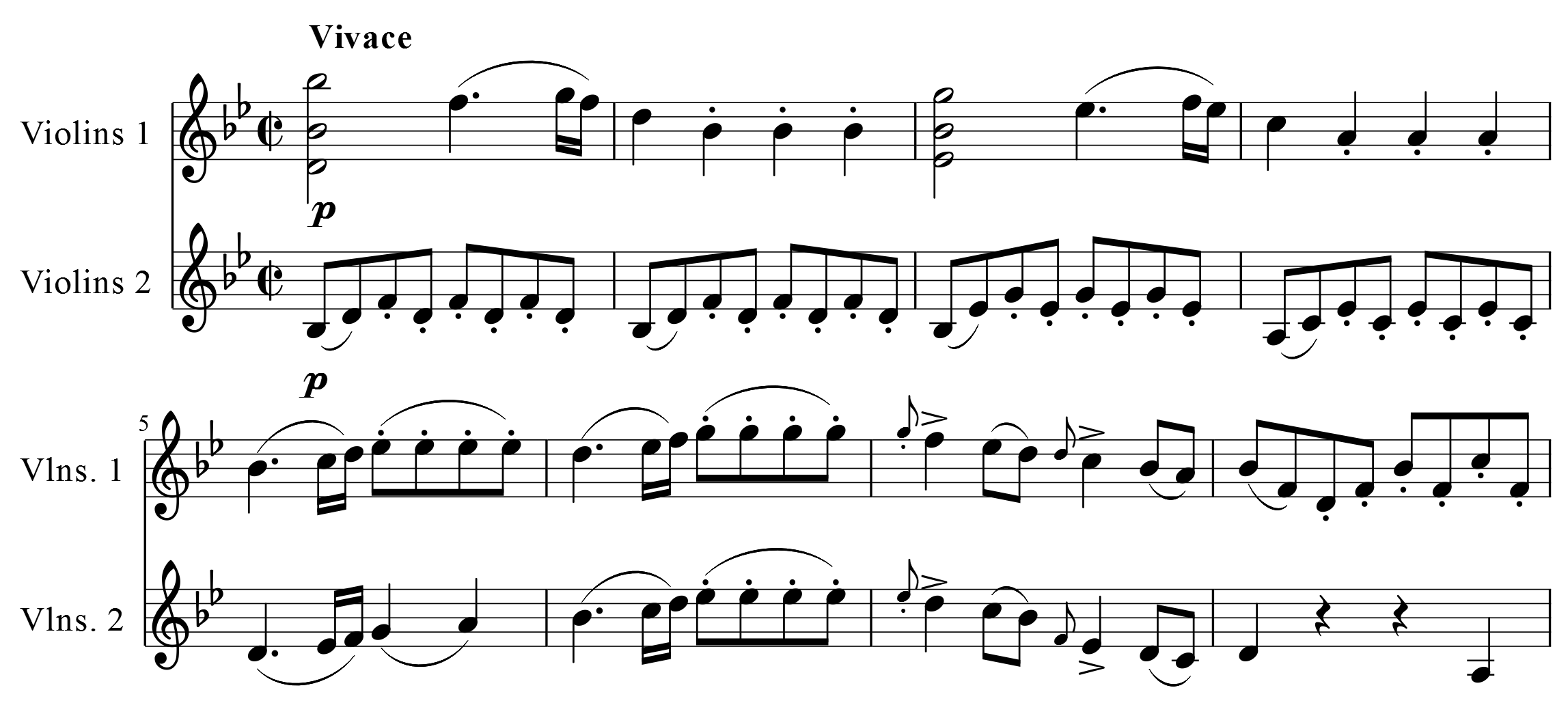 Joseph Haydn, Symphony No. 77, first movement, bar 1-8